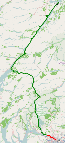 An outline of the route of the A82 in Scotland, from Glasgow to Inverness